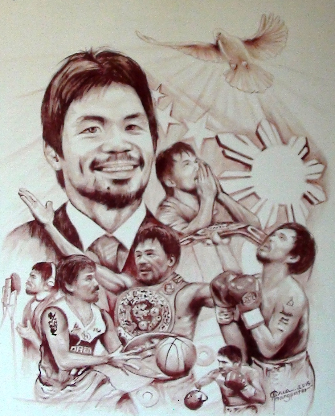 The artist expressed his support for Manny Pacquiao by painting the Filipino boxer using his own blood. Elito Circa, who goes by the Amang Pintor, is known for using his own hair and blood (Type O) for his paintings. His painting of Pacquiao depicts the different aspects of the boxer's life, including his stint as a singer and his role as a congressman. Circa also emphasized Pacquiao's religiosity in his painting.